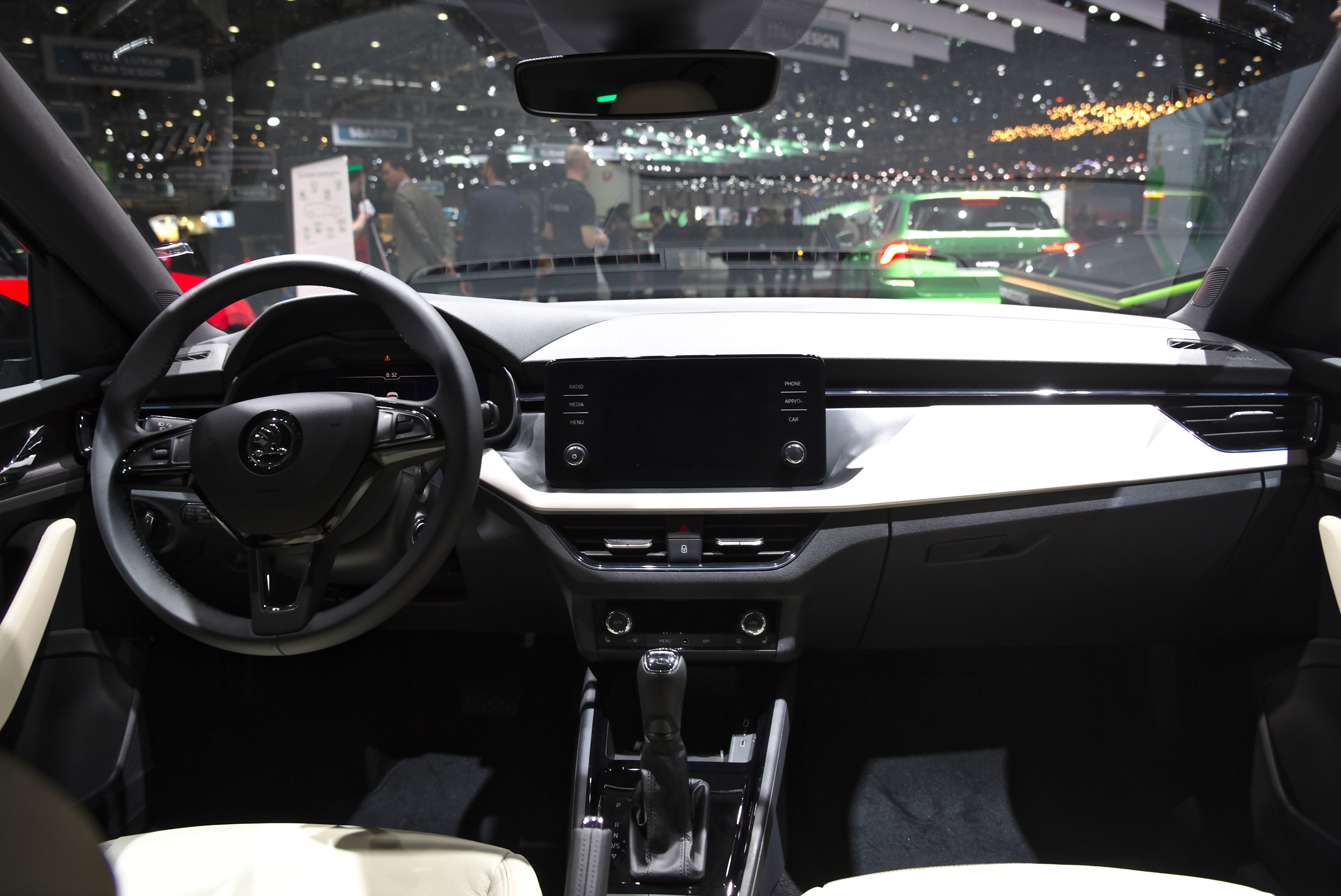 Škoda Scala at Geneva Motor Show 2019